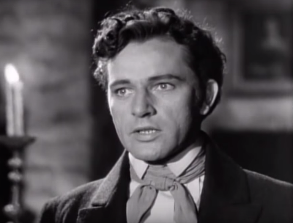 Trailer screenshot of My Cousin Rachel (1952)